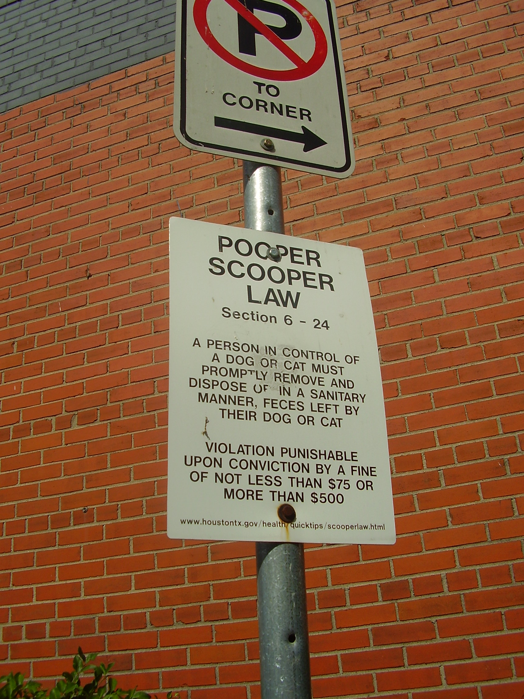 Sign telling owners to clean up after pets